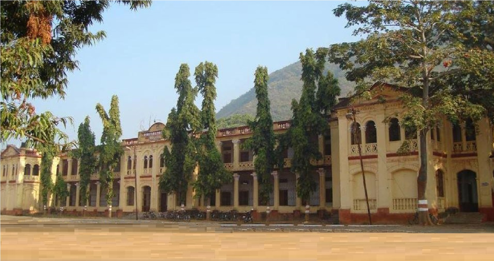 This Photo is uploaded by Mr. Santosh Sahu